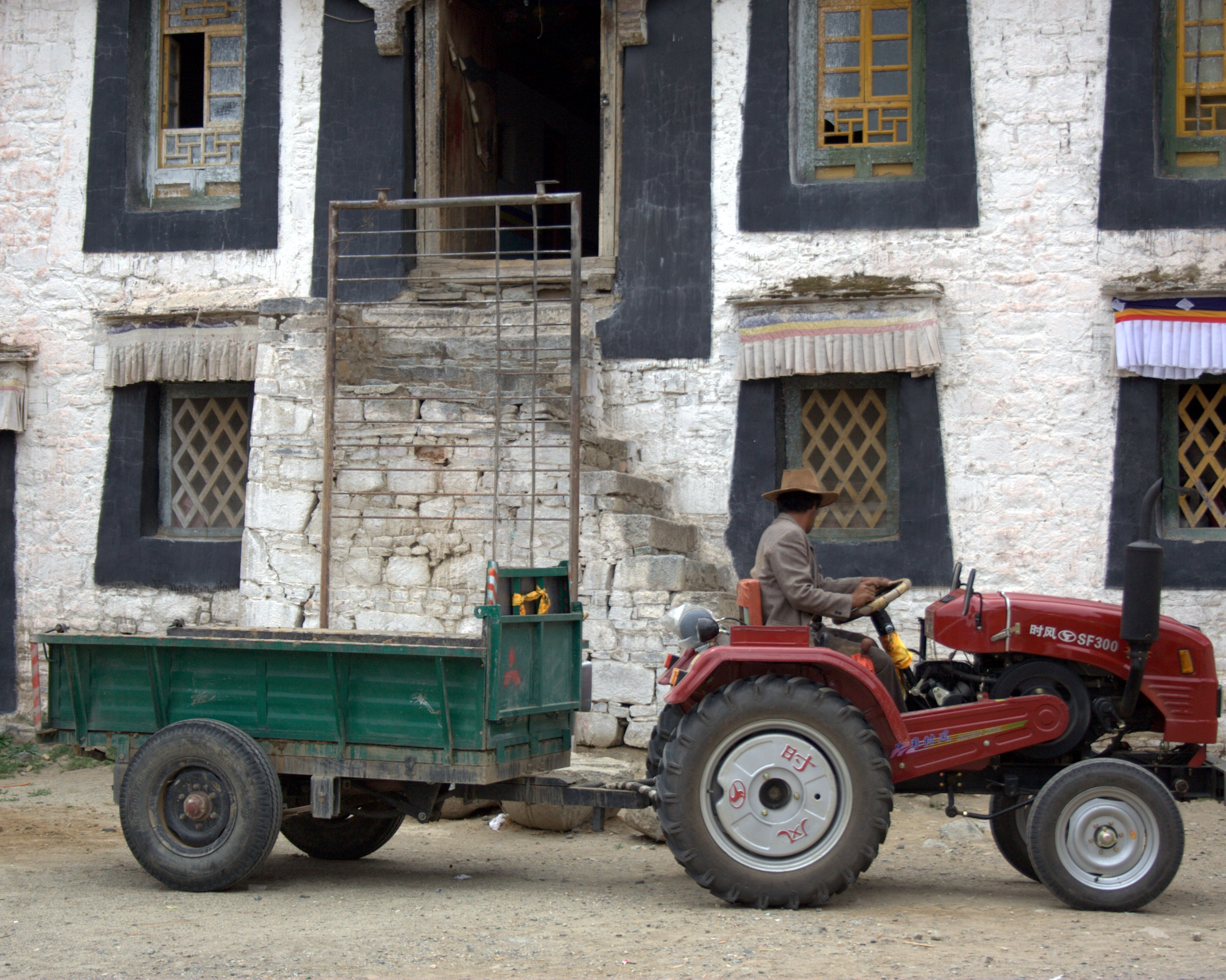 Tractor in Samye.